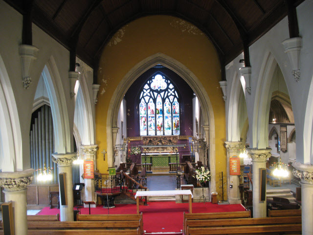 Interior of St Nicholas Church. The interior of the parish church in Sutton town centre, looking eastwards from the gallery (see 938023 for an exterior view).